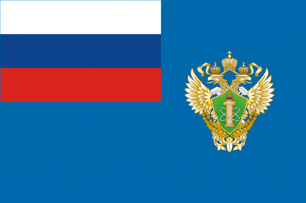 Flag of Federal service on ecological, technological and nuclear supervision, 2007.